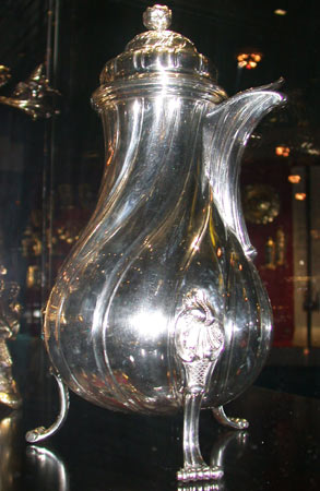 Chocolate pot, Silver, Lille, France, 1779 V&A Museum no. 16-1963 This pot is characteristically rococo, with its dramatic swirling decoration. The handle of the pot is straight and made of wood. This made it easier to pick up the pot as wood does not conduct as much heat as silver.